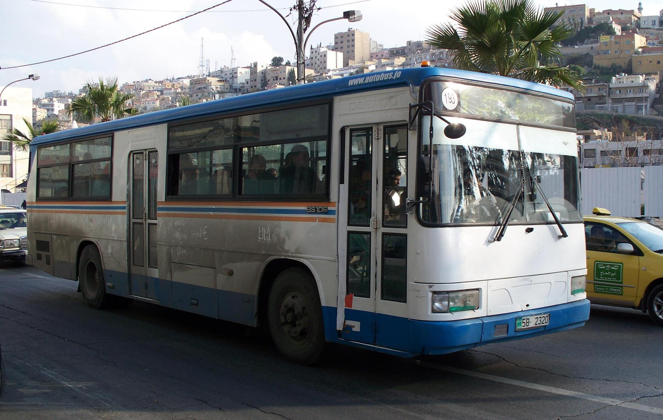 Daewoo BS106 city bus (reg. 58-2320; #193) in Amman, Jordan. Comprehensive Multiple Transport Company PLC (CMTC) operator.